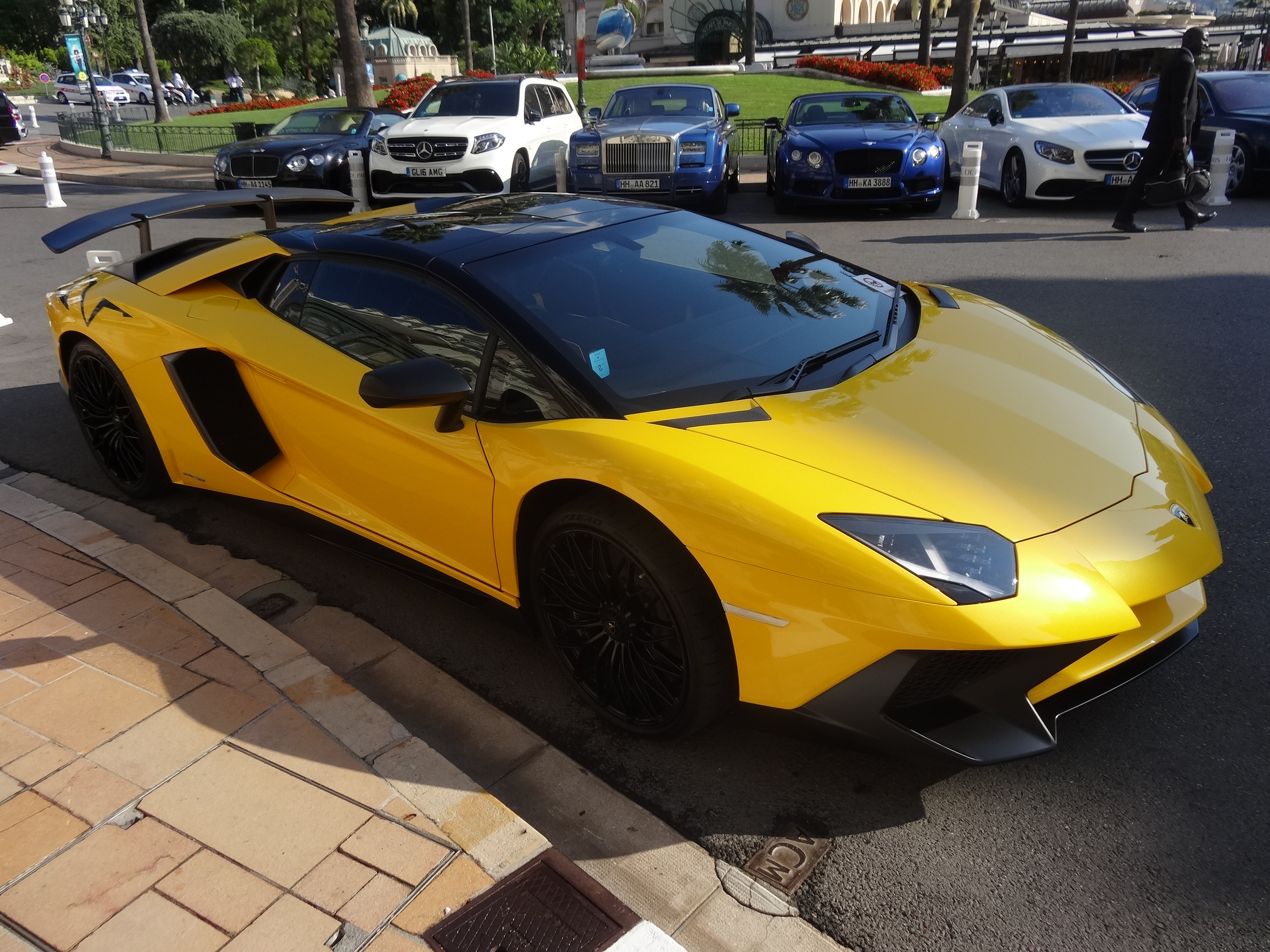 Yellow Lamborghini parked in between the Casino de Montecarlo and the Hotel de Paris, Monaco. August 2016.